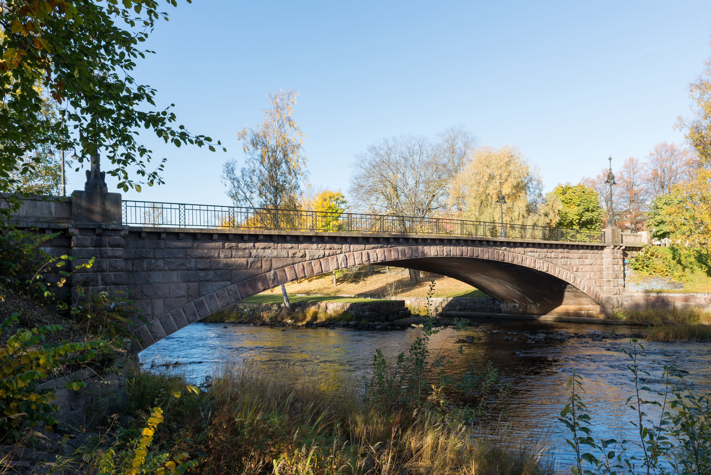 Drottningbron